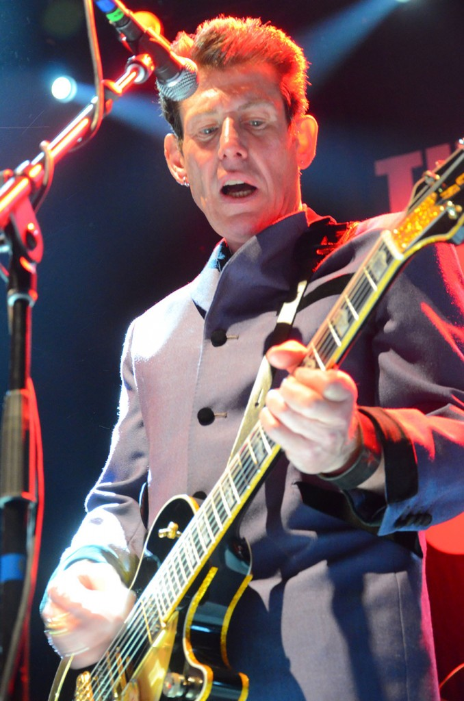 Roddy Radiation playing guitar at Club Nokia with The Specials on March 18, 2013